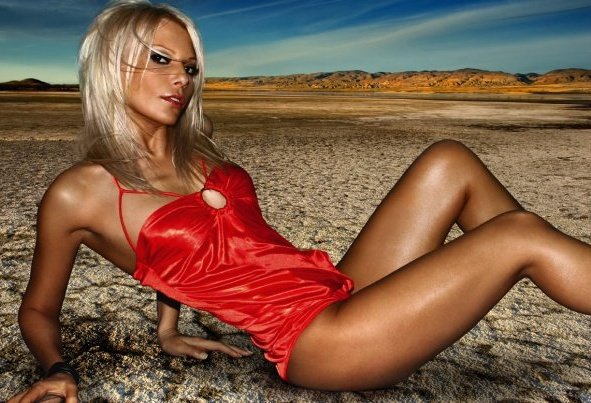 Petia for INTRO Photo by Demo+Tono